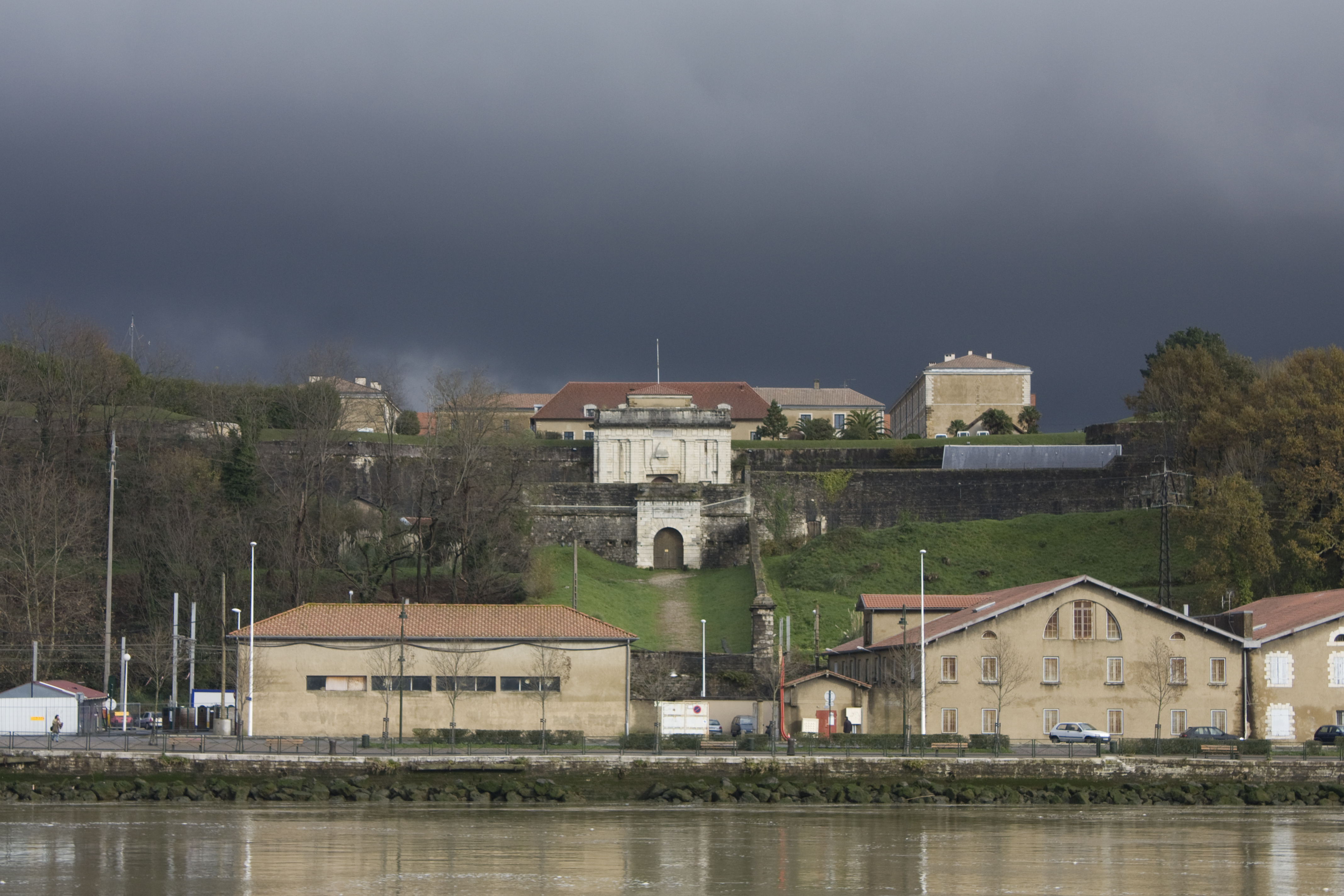 The Citadel (right bank of the Adour), and the old customs warehouses. .